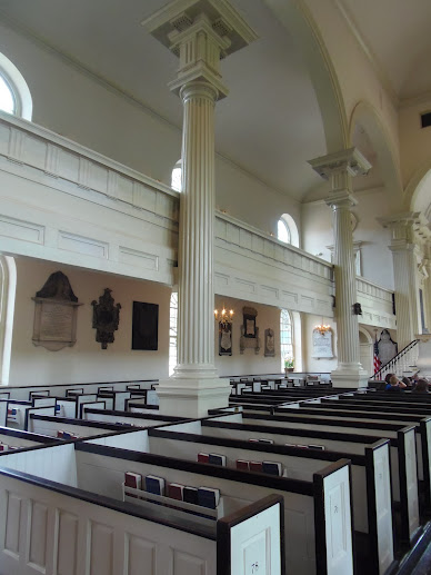 Interior detail of Christ Church Philadelphia